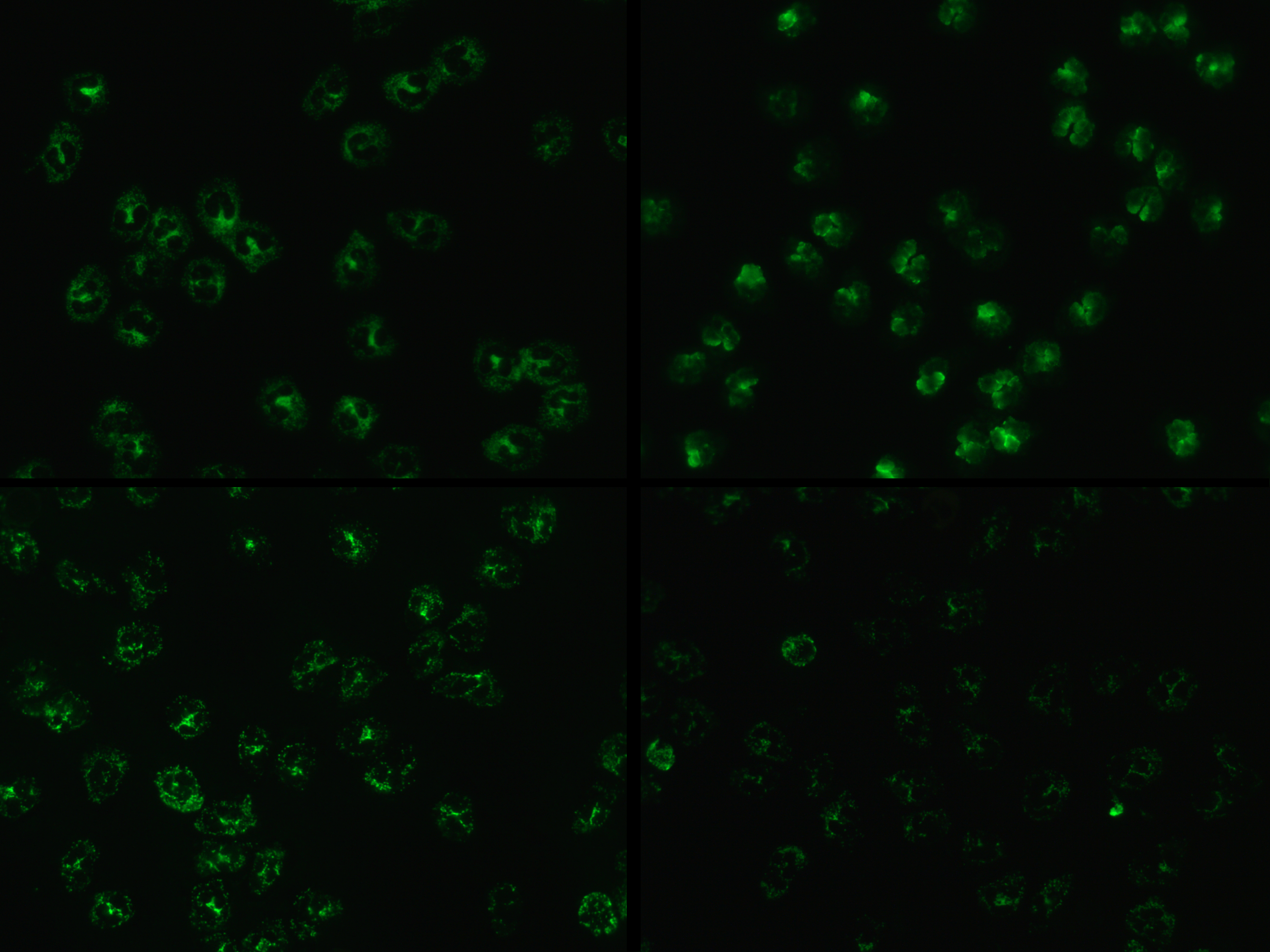 Antineutrophil cytoplasmic antibodies (ANCA). Immunofluorescence staining pattern of ANCA using FITC conjugate. Top left - PR3 antibodies on ethanol-fixed neutrophils showing a cytoplasmic ANCA pattern. Bottom left - PR3 antibodies on formalin-fixed neutrophils showing a cytoplasmic ANCA pattern. Top right - MPO antibodies on ethanol-fixed neutrophils showing a perinuclear ANCA pattern. Bottom right - MPO antibodies on formalin-fixed neutrophils showing a cytoplasmic ANCA pattern.